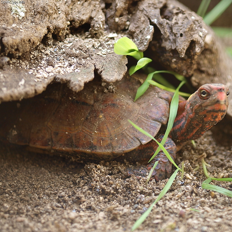 Okinawa black-breasted leaf turtle Geoemyda japonica at Neo Park Okinawa, Japan